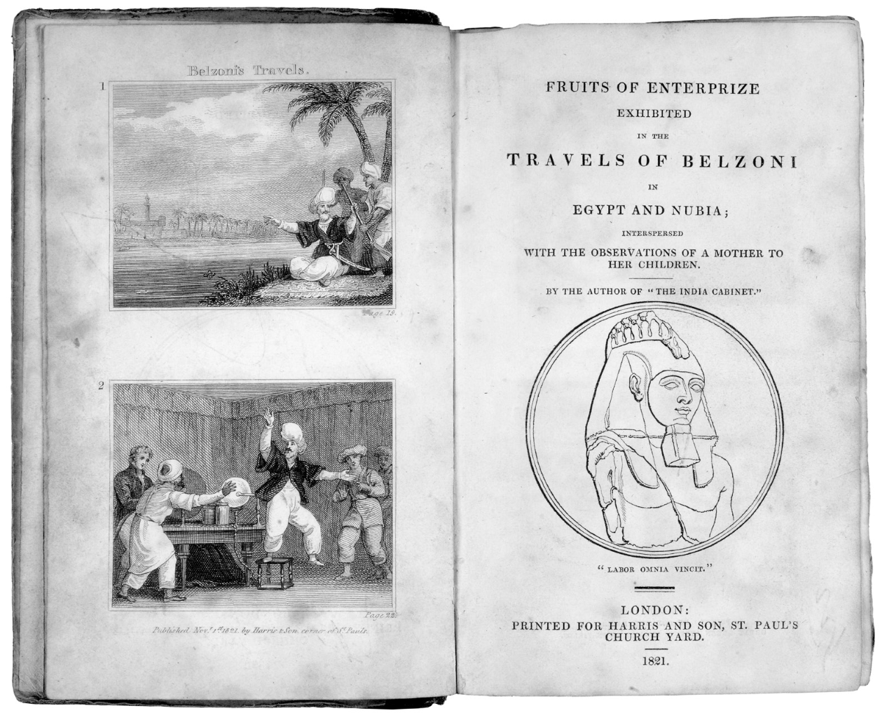 Interior Pages of Fruits of Enterprise, by Sarah Atkins Wilson